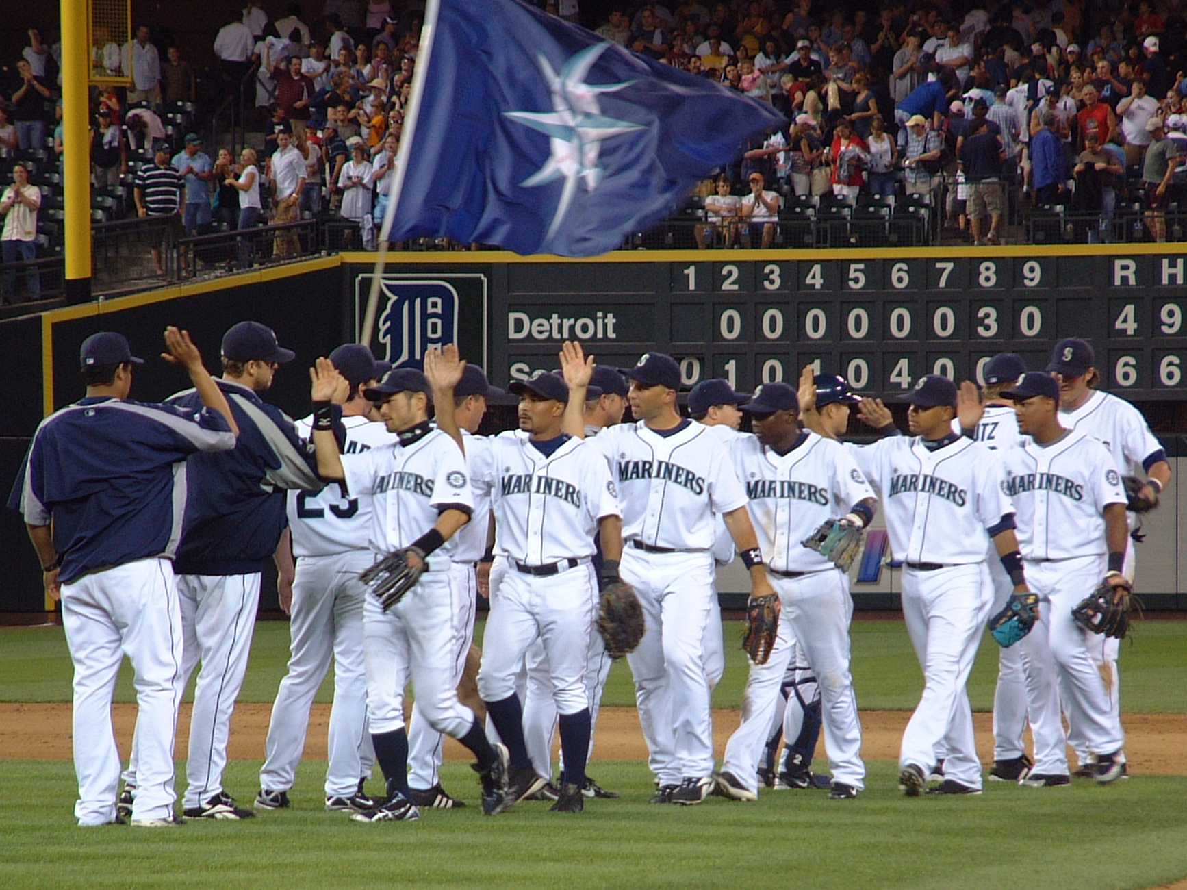 Team Mariners celebrating the winning